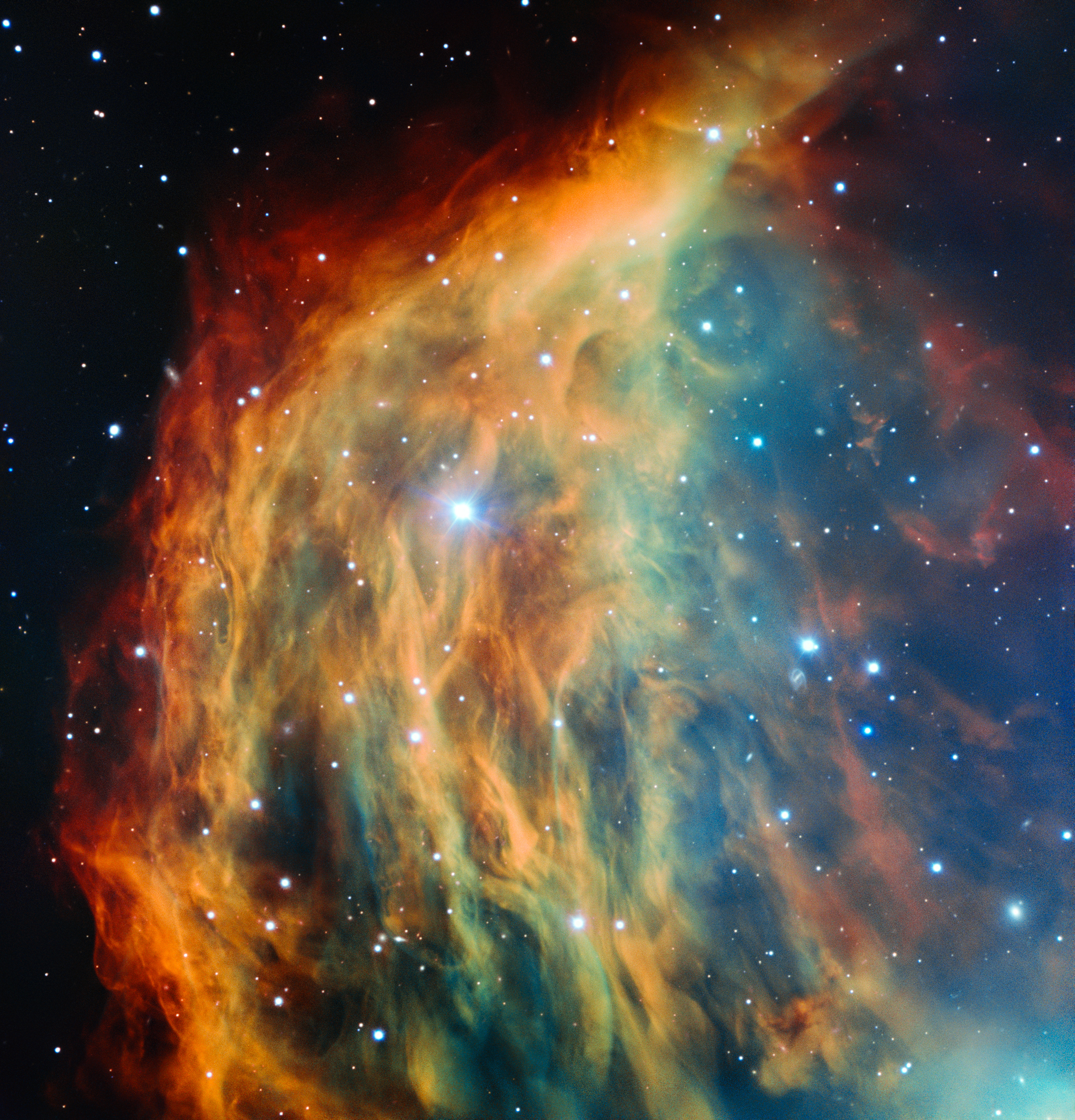 ESO’s Very Large Telescope in Chile has captured the most detailed image ever taken of the Medusa Nebula (also known Abell 21 and Sharpless 2-274). As the star at the heart of this nebula made its final transition into retirement, it shed its outer layers into space, forming this colourful cloud. The image foreshadows the final fate of the Sun, which will eventually also become an object of this kind.